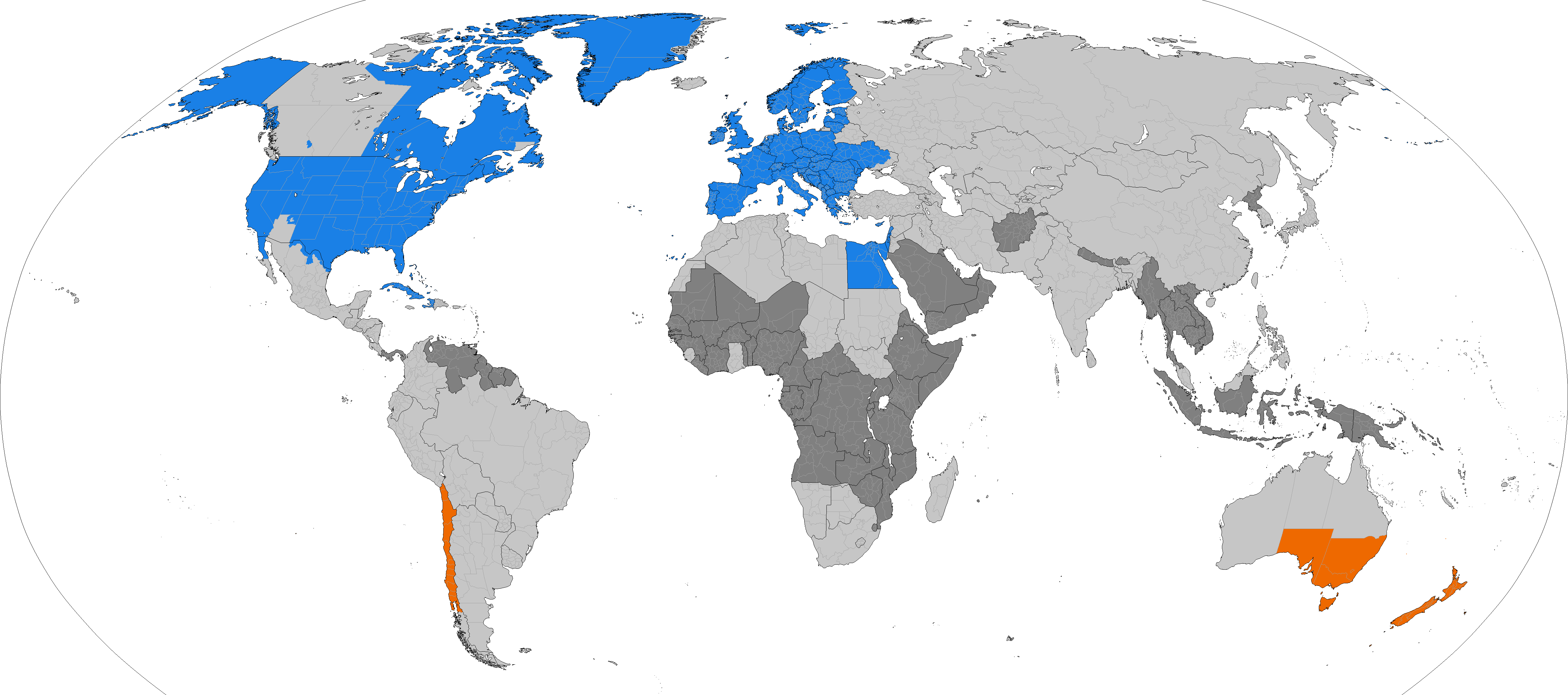 Larger map of the previous version. Distinguished from summertime in the northern hemisphere and southern hemisphere. Northern hemisphere summer Southern hemisphere summer Formerly used daylight savings Never used daylight savings